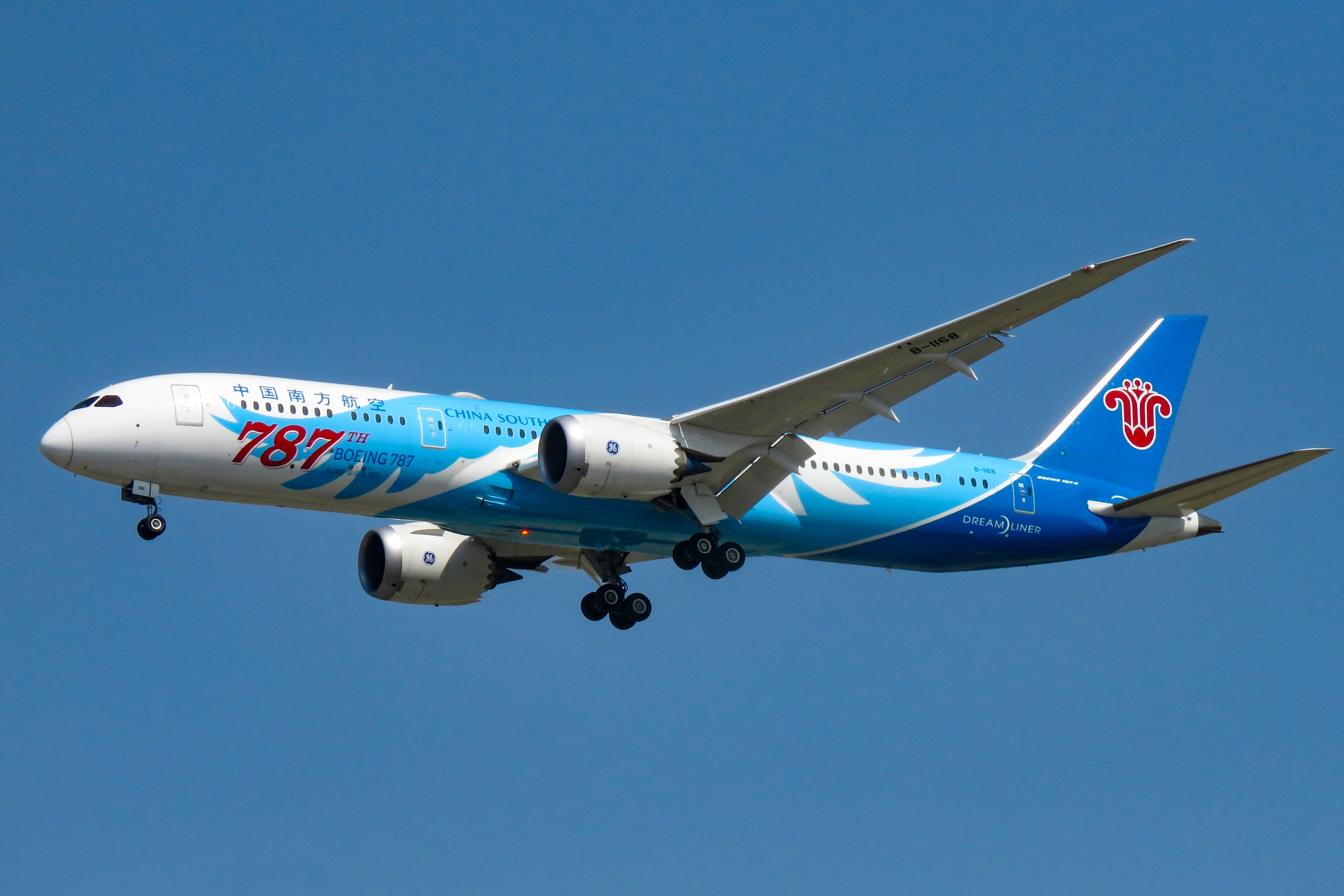 China Southern 3103 from Guangzhou, using the 787th Boeing 787. This special marking may lack design, but after all it is a special livery! Get it before moving to PKX!